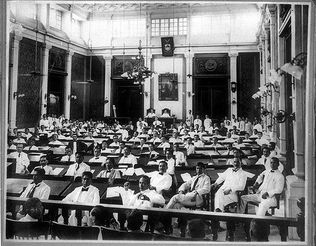 Caption on photo: Joint session of Philippine Legislature, Manila, 1916